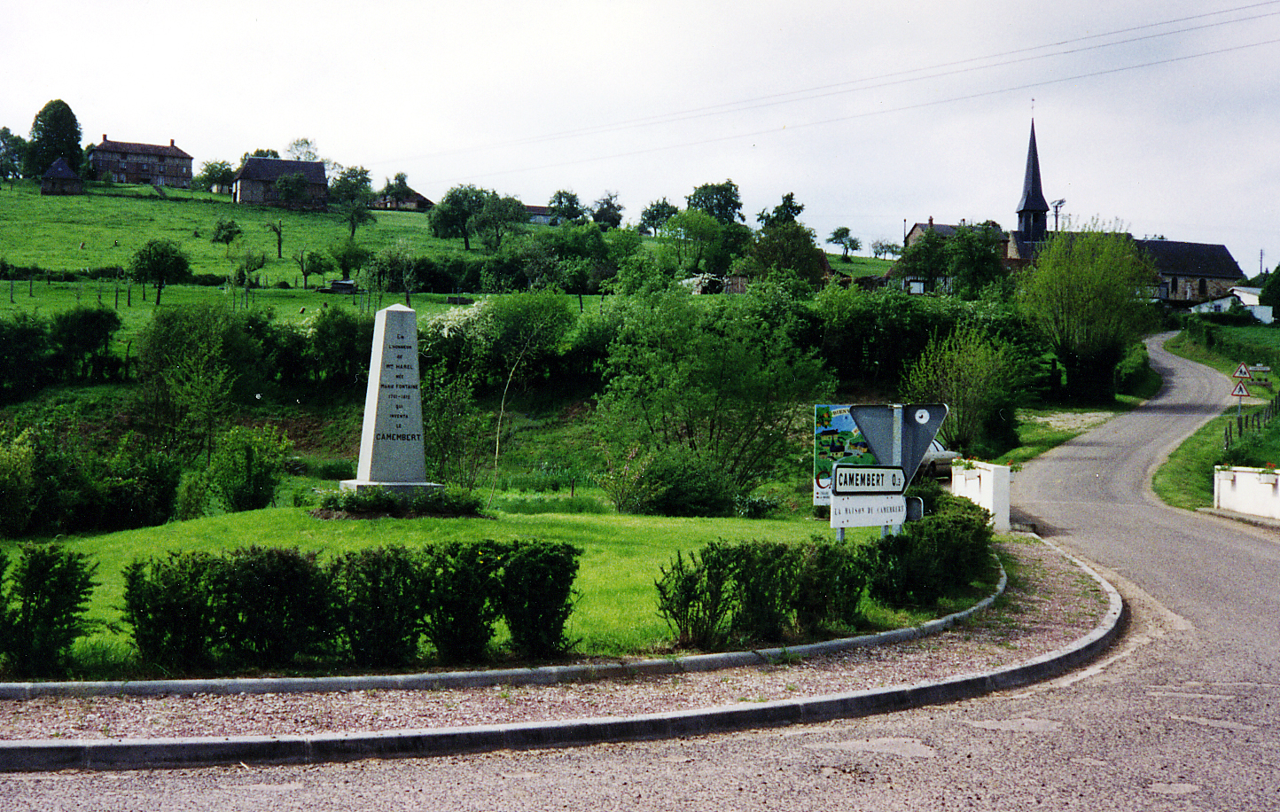 Outlook on the town of Camembert in Pays d'Auge (Normandy) where the eponymous cheese was invented.